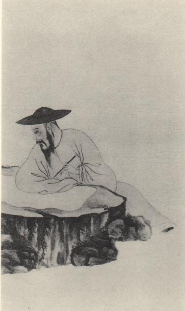 Gao Fenghan, scholar of the Qing Dynasty.